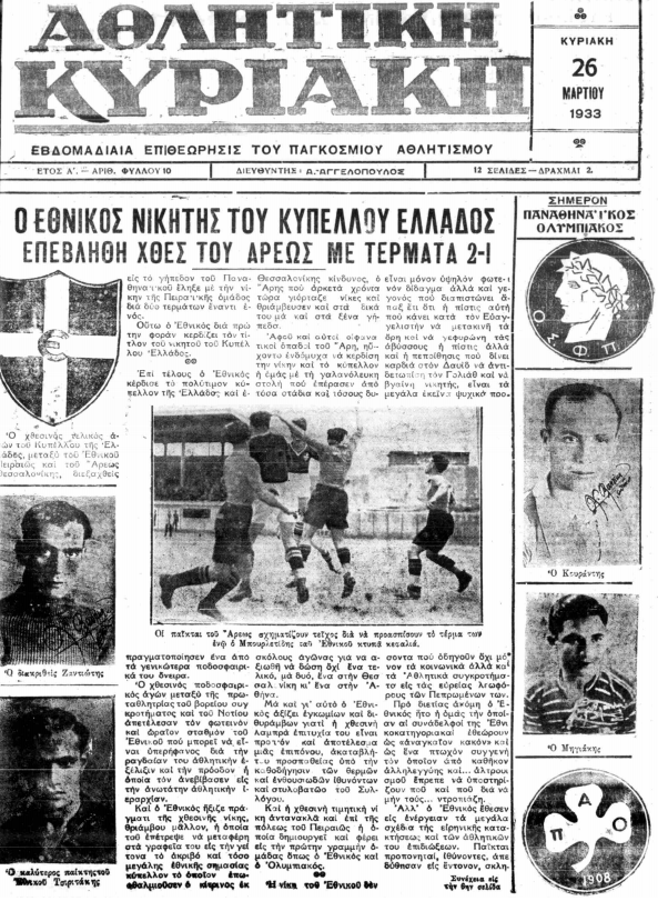 Ethnikos cup winner 1933 newspaper cover